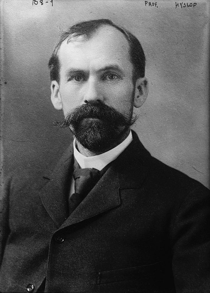 James H. Hyslop